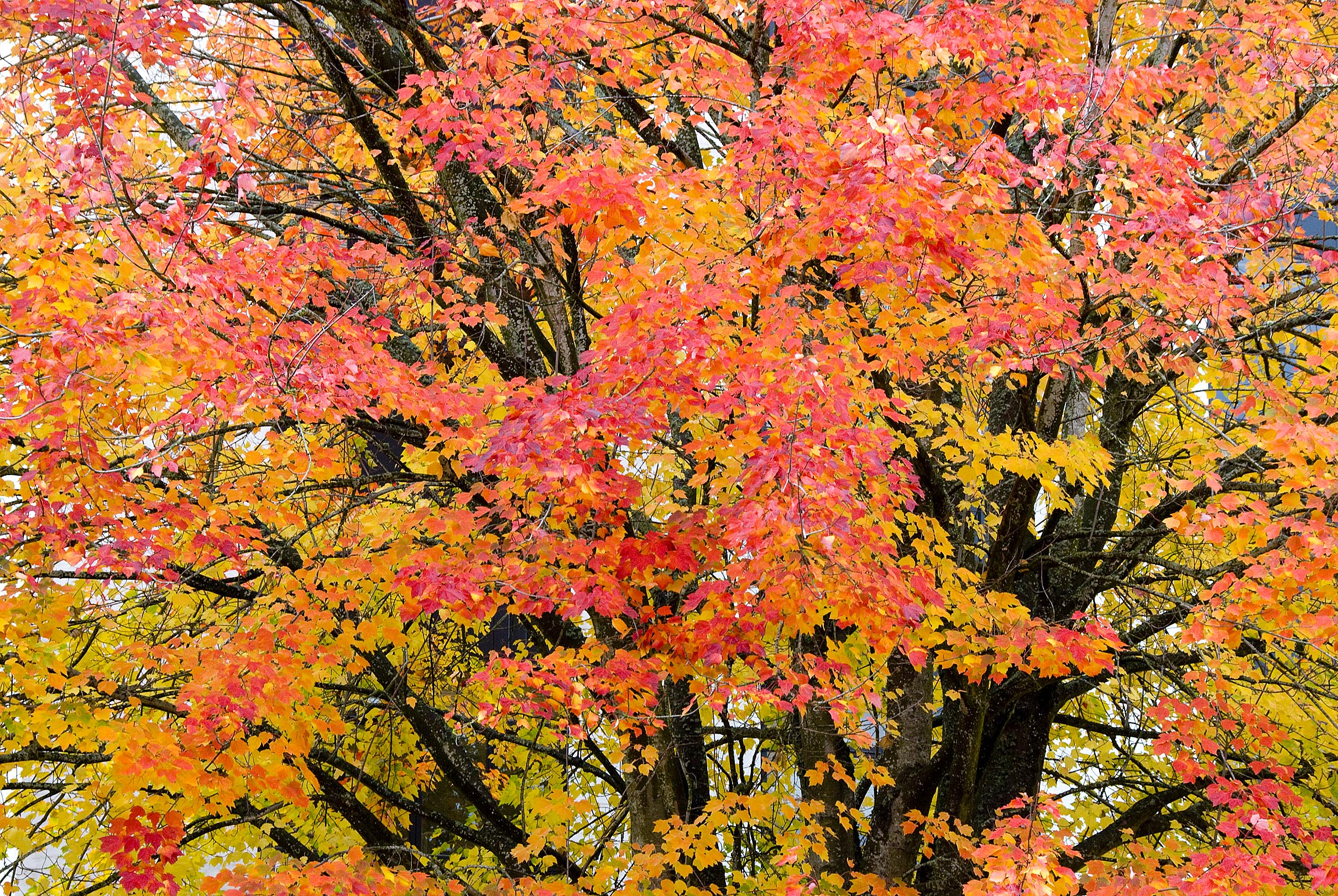 Trees near the Oregon Department of Transportation offices in the Capitol Mall in Salem.